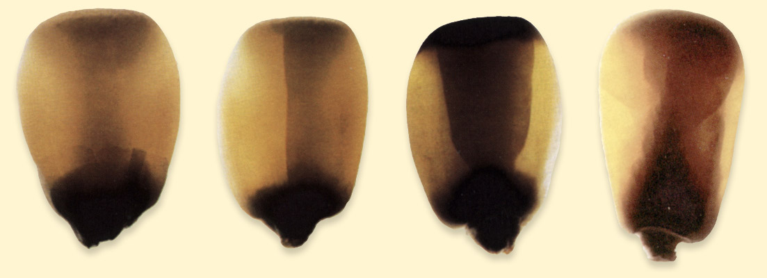 Corn kernels with zero to multiple stress cracks as placed from left to right.[1]